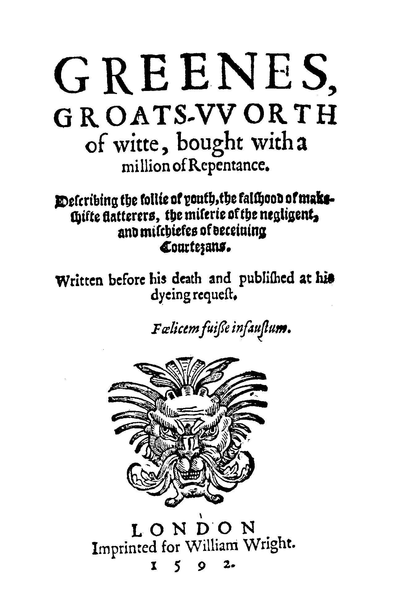 Title page of "Greene's Groatsworth of Wit" (1592)